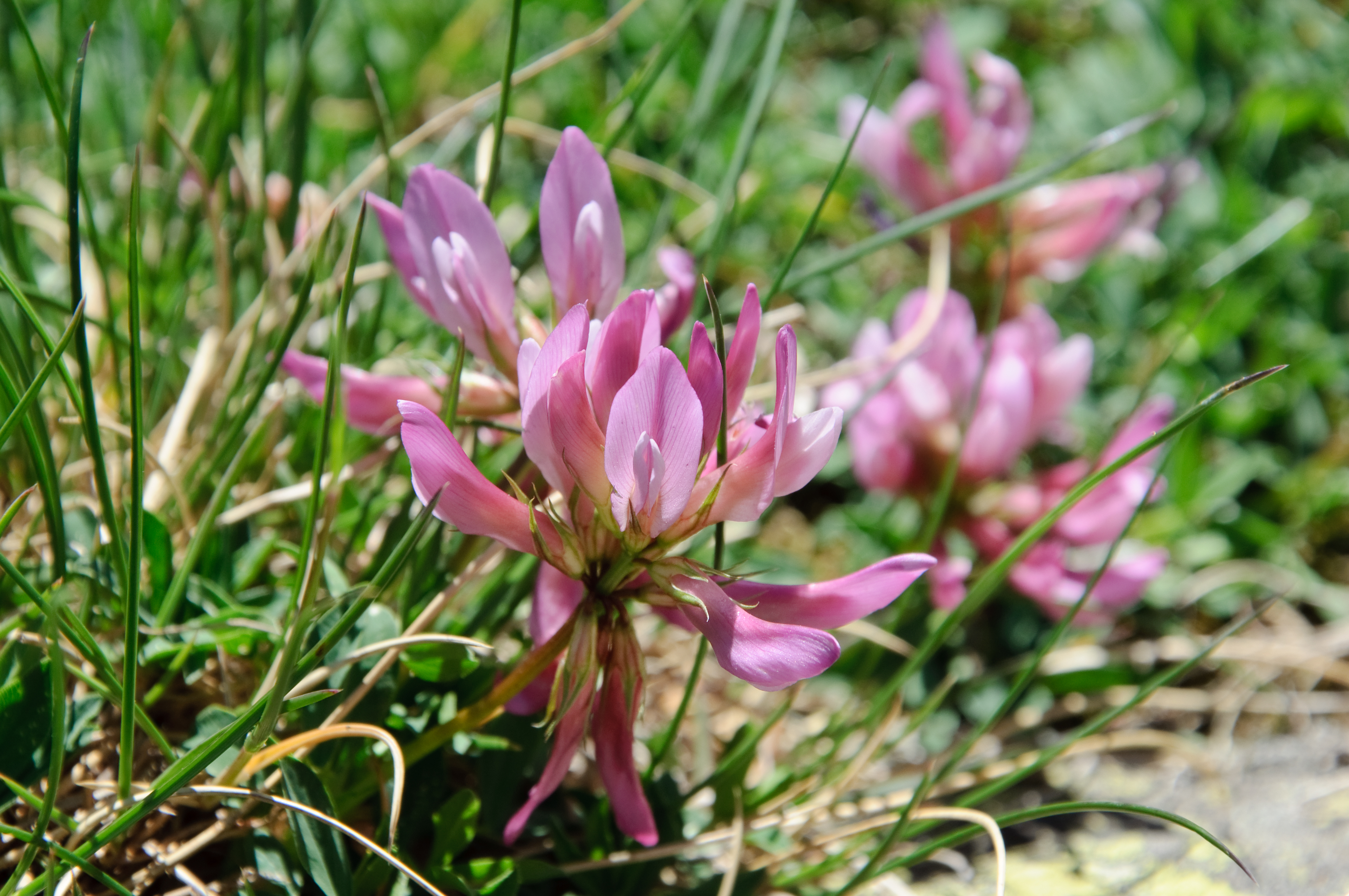 Trifolium alpinum, near lake Gentau in the Pyrenees.